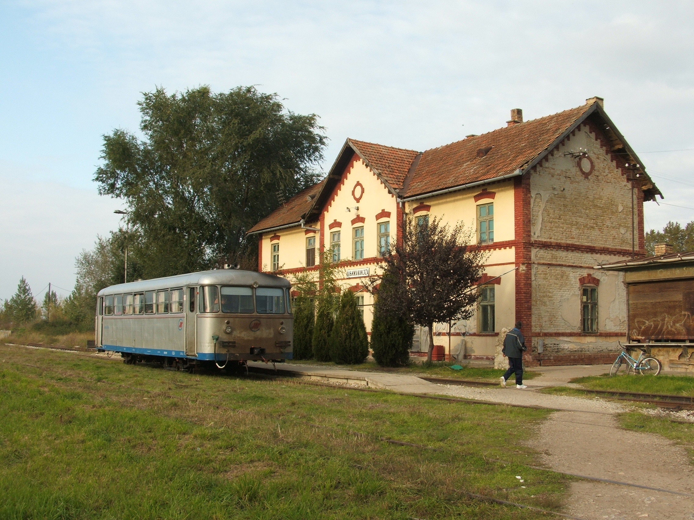 Railbus ("sinobus") at Magyarkanizsa (Kanjiža), Serbia